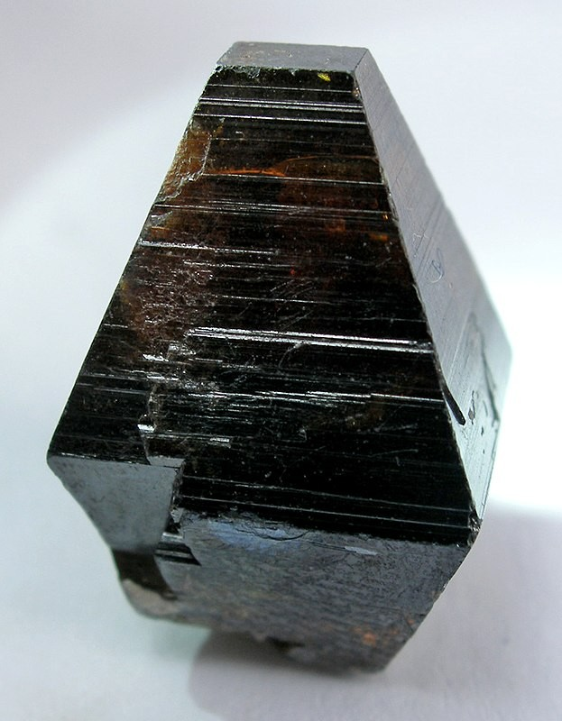 Anatase Locality: Kharan, Balochistan (Baluchistan), Pakistan (Locality at ) Size: 2.0 x 1.3 x 1.2 cm. This is an outstanding anatase crystals from Pakistan. Because of the red color and gemminess to the outer layers here, these are absolutely distinct from Norwegian material from Valtres. Ex. Laura and Stevia Thompson Collection.